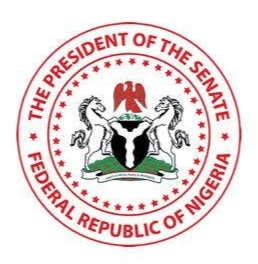 Seal of the Senate President , Federal Republic of Nigeria